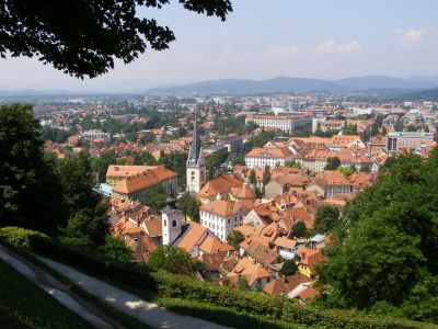 The Panorama of Lublana, Slovenia